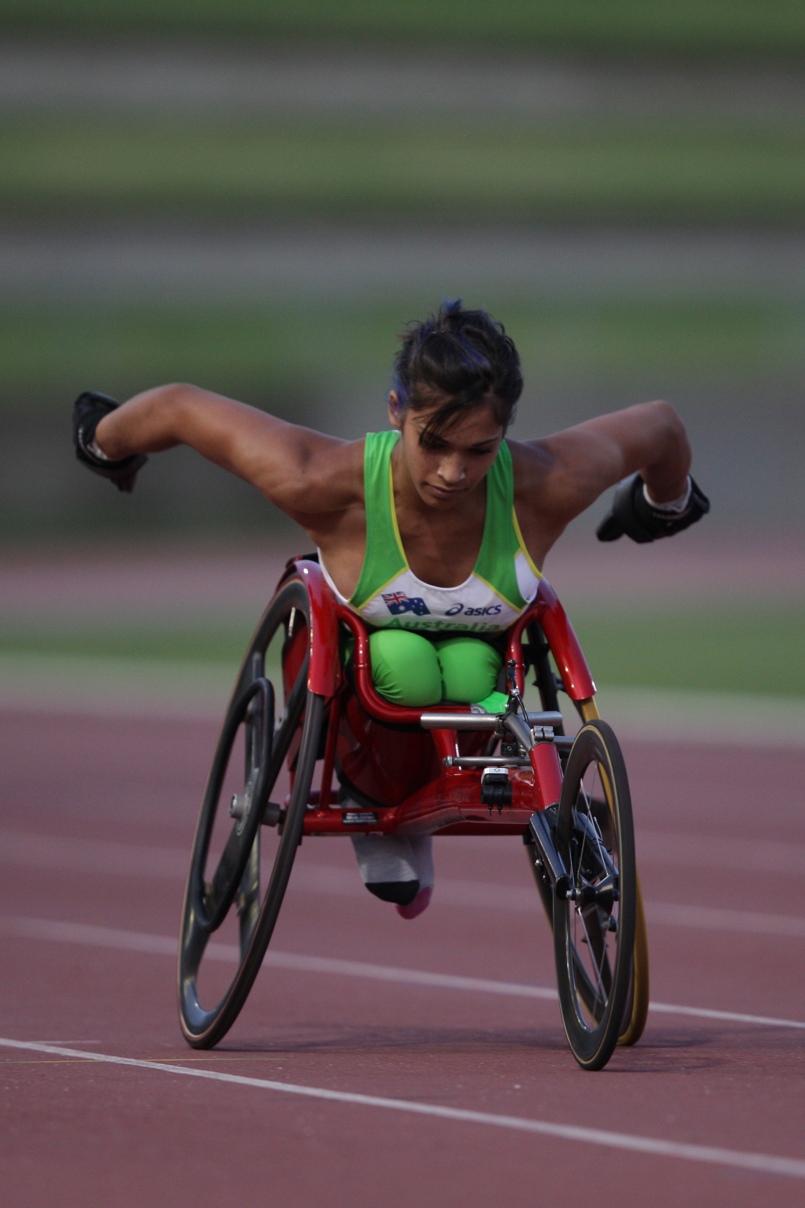 Australian Paralympic wheelchair track athlete Madison de Rozario competes at the 2011 World Championships warm-up meet in Sydney in January 2011